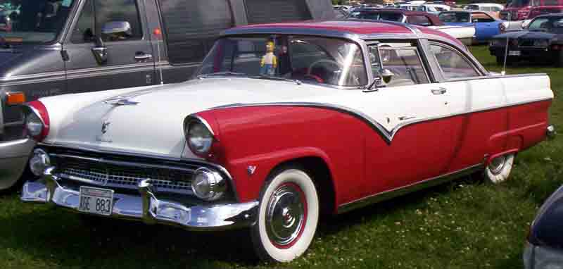 Ford Failane Crown Victoria 1955